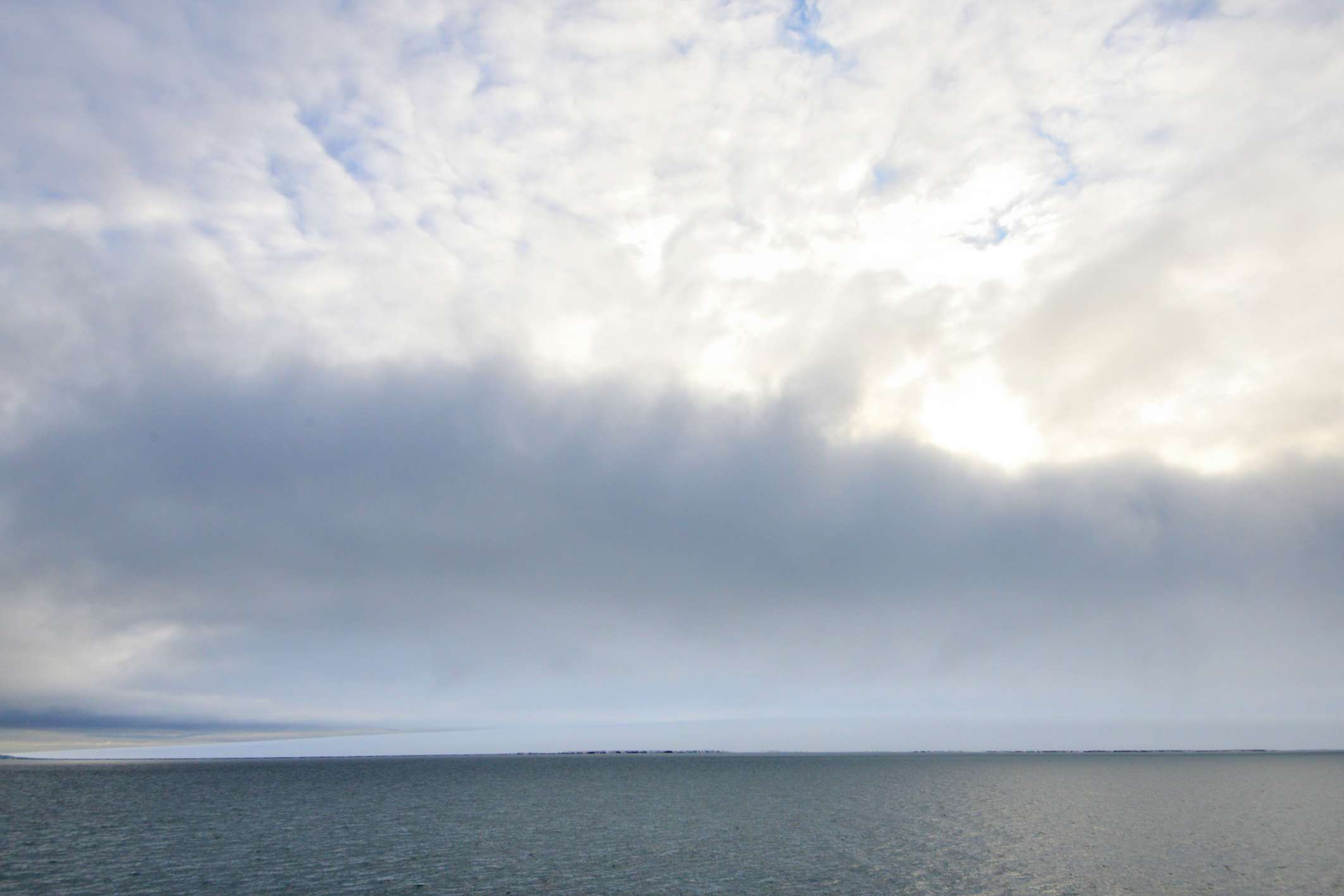 Schmidt Island (Severnaya Semlya, Russia; 81°12’N, 91°10‘E)